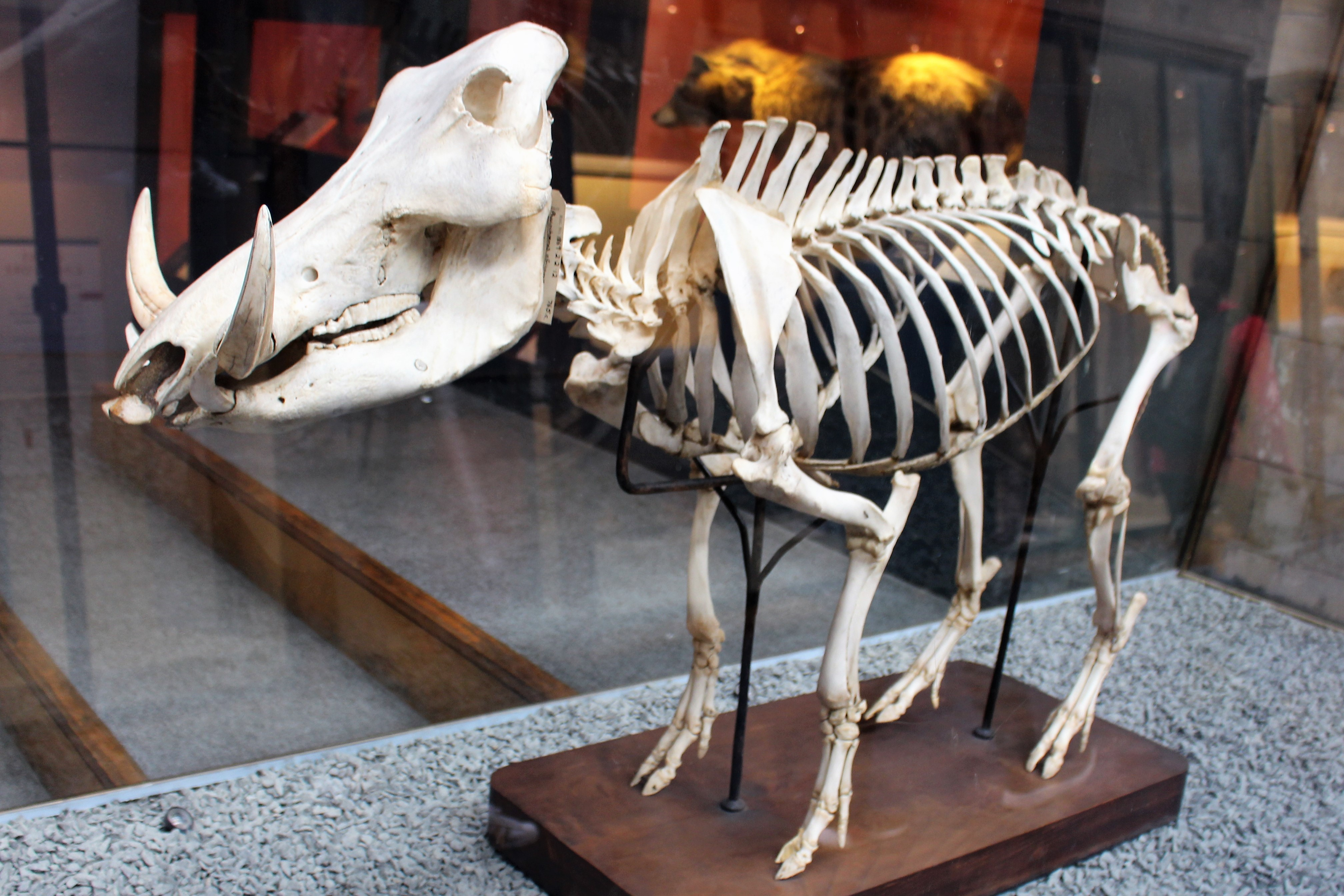 The skeleton of a common warthog (Phacochoerus africanus) at the Natural History Museum in London, England.